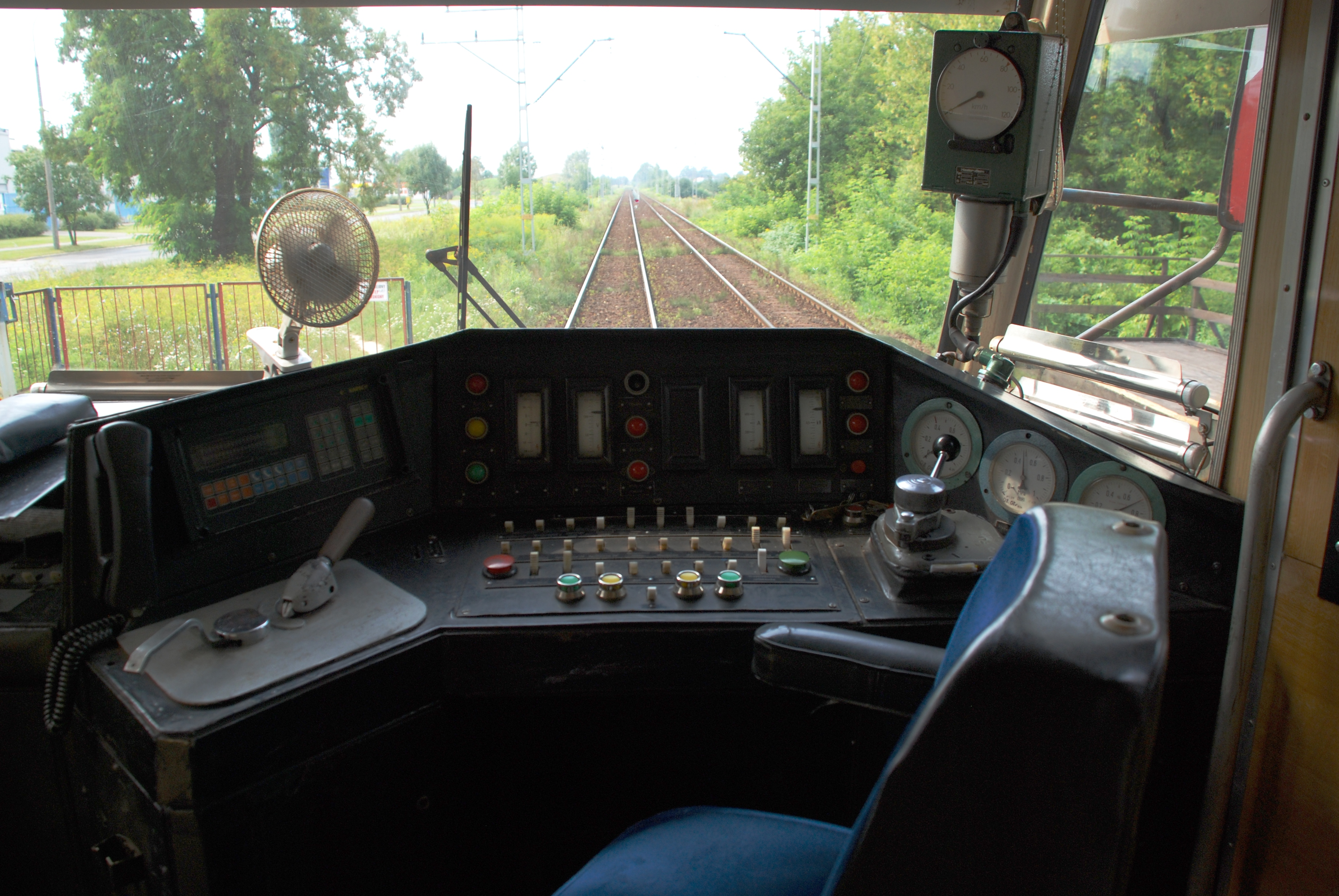 Cockpit of polish Electric Multiple Unit EN94.